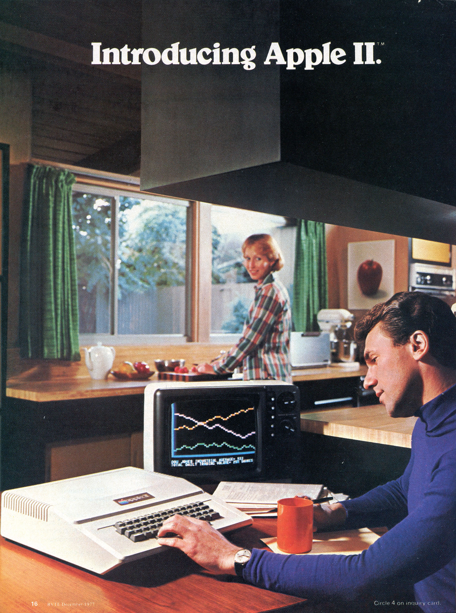 An Apple II advertisement from the December 1977 issue of Byte magazine, pages 16 and 17. The second page was described the features of the Apple II. The ad originally ran in May 1977 and was updated that December.